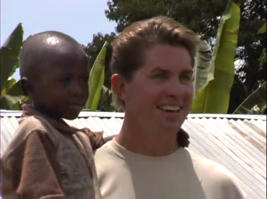 Photo of Jeff Blackard while on a philanthropic trip to Africa.